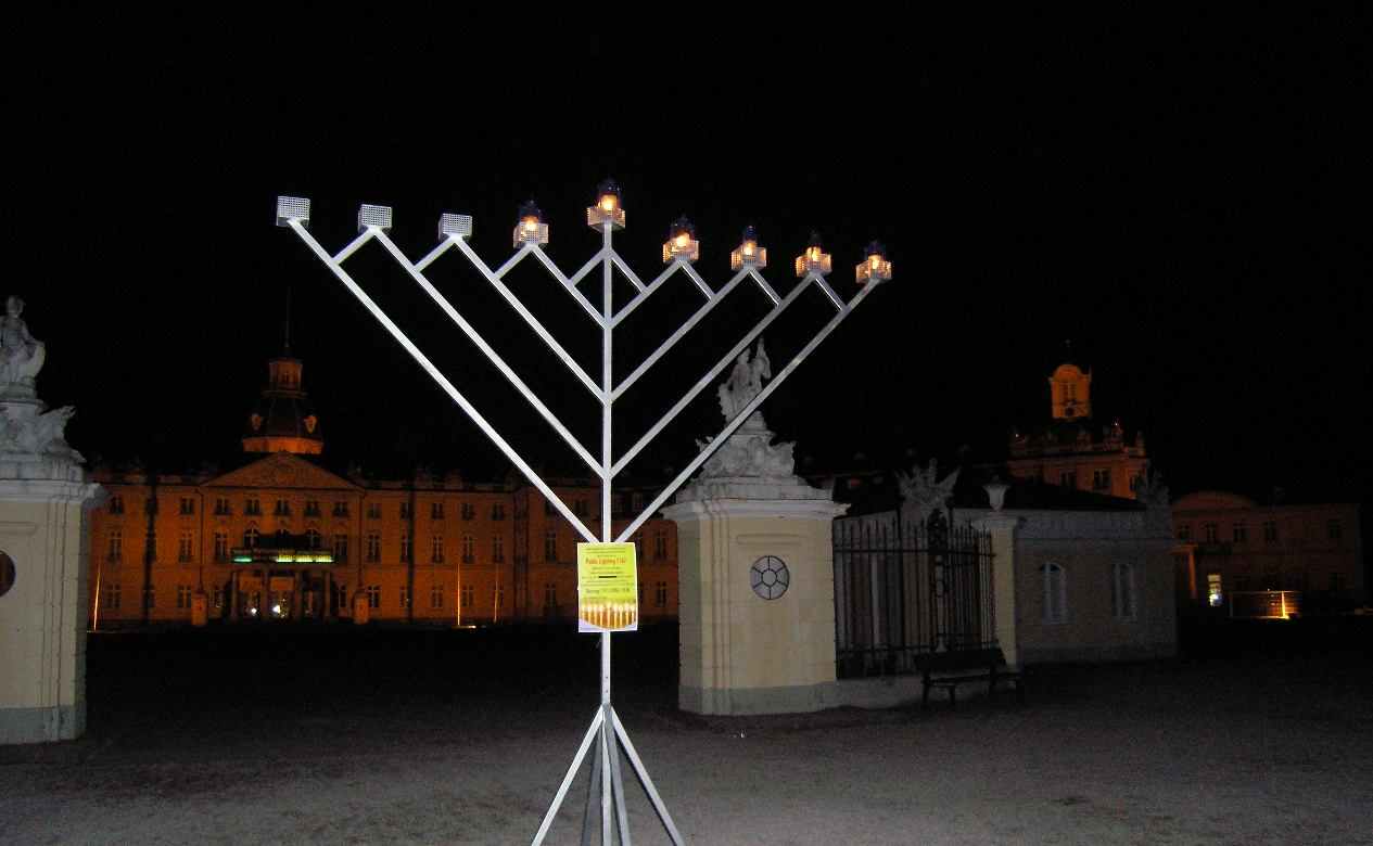 Hanukiah in front of Karlsruhe castle